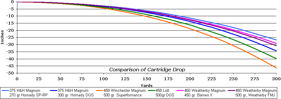 .460 Weatherby Magnum bullet drop comparison